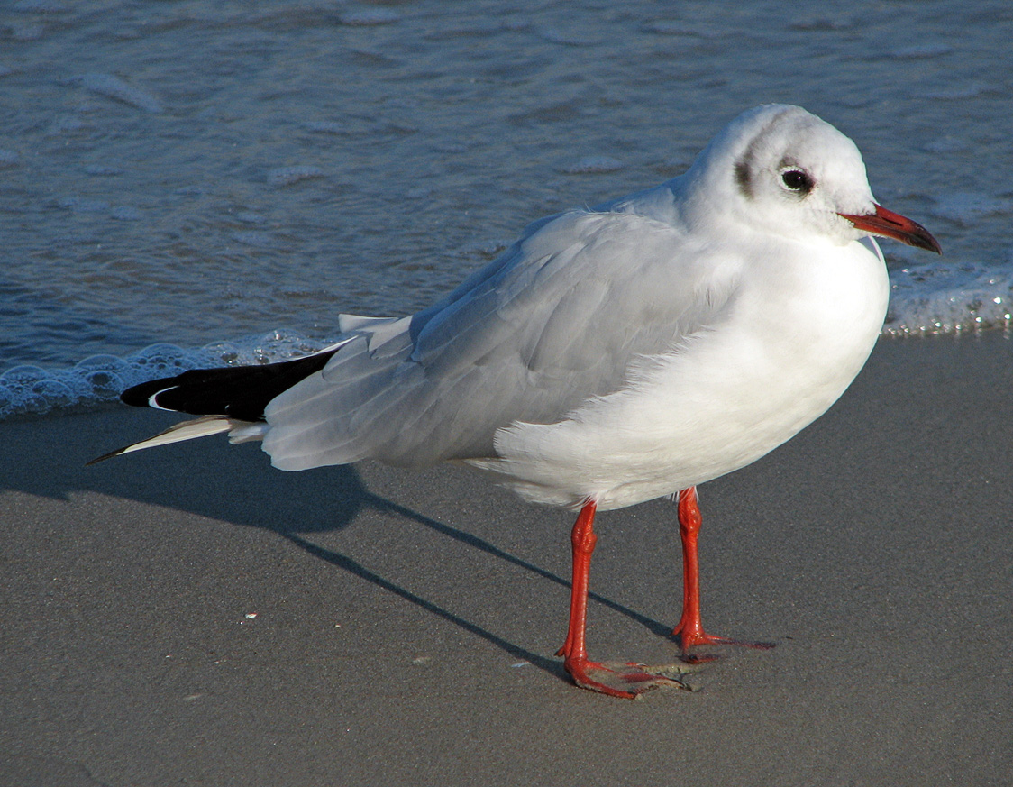 Common Black-headed Gull